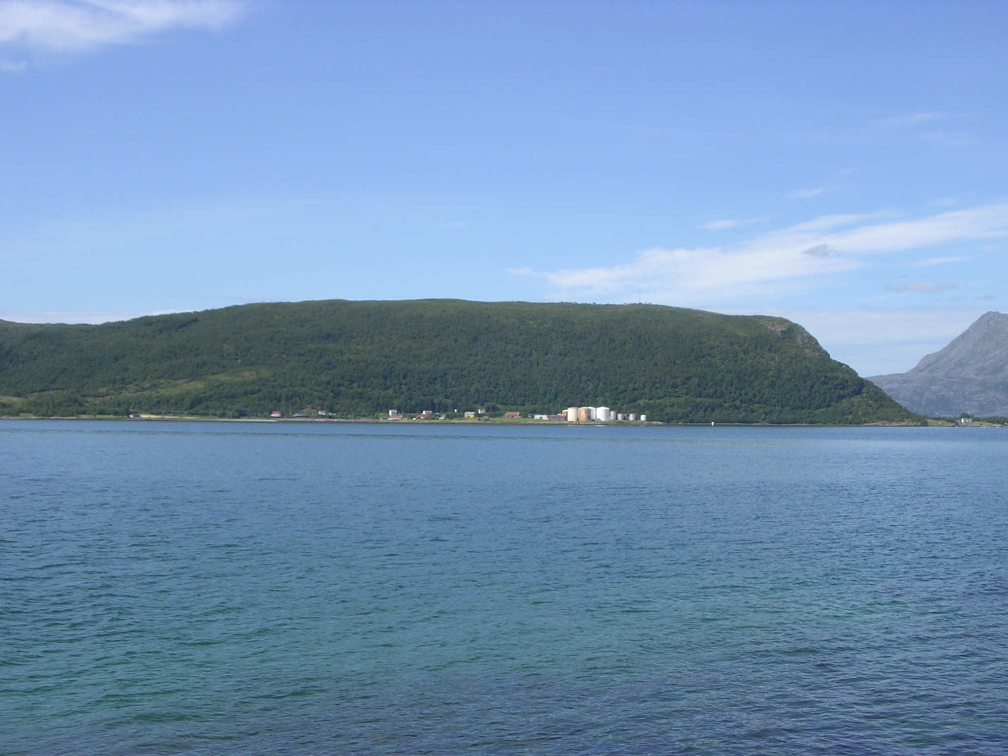 Island Hugla island in Nesna municipality, Nordland, Norway. Northern part of the island viewed from Nesna.